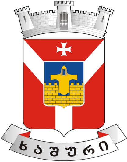 Coat of arms of Khashuri